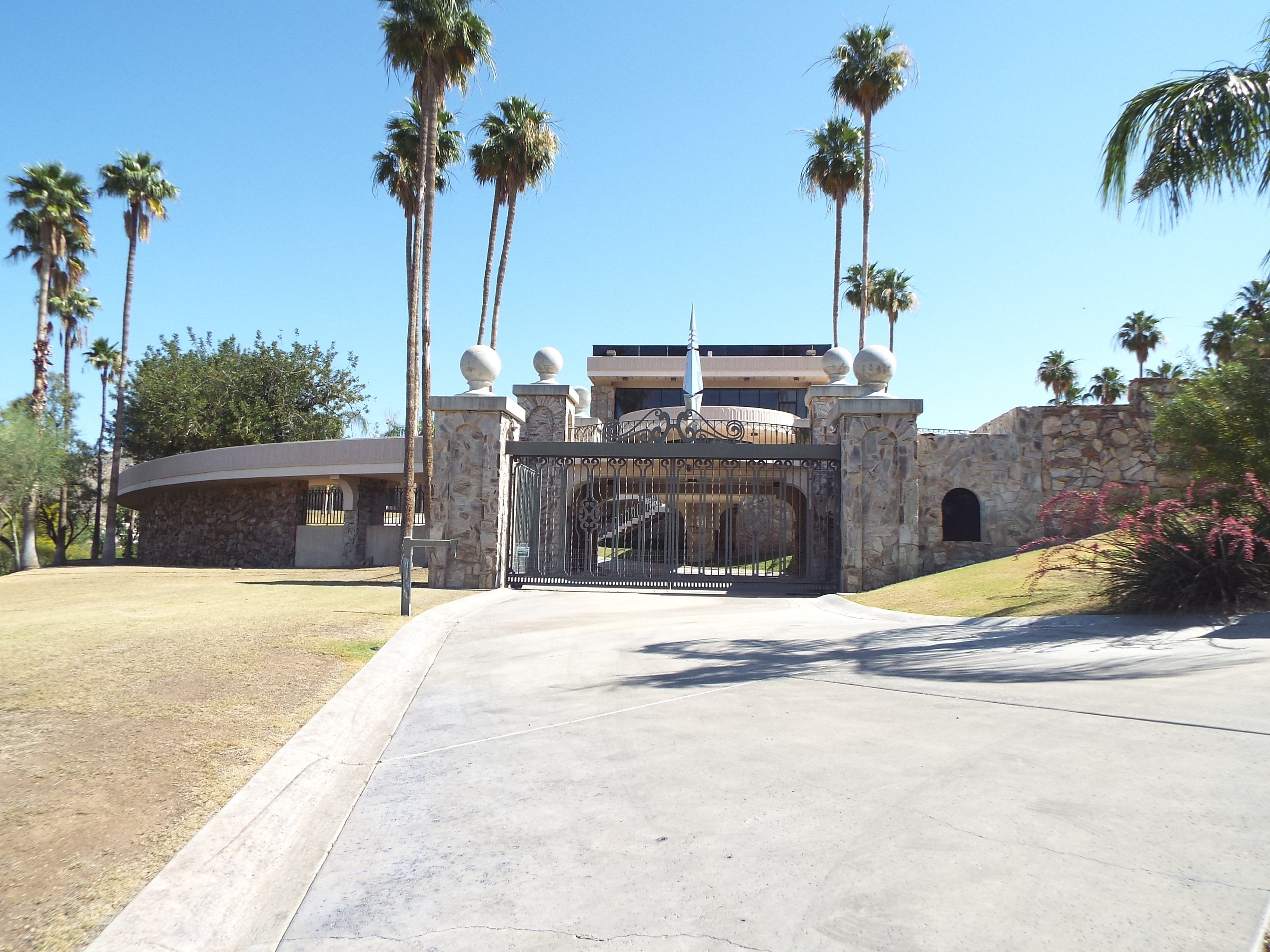 The McCune Mansion/Hormel Mansion was built in 1967 and is located at 6112 N. Paradise View Drive atop Sugar Loaf Mountain in Paradise Valley, Arizona. The house was built for Pennzoil heir Walter McCune. It was later sold to Hormel heir George Hormel. At 52,000 square feet, it is the 13th largest privately owned home in the United States by square footage.Phoenix Business Journal